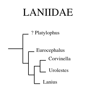 Cladogram of Laniidae